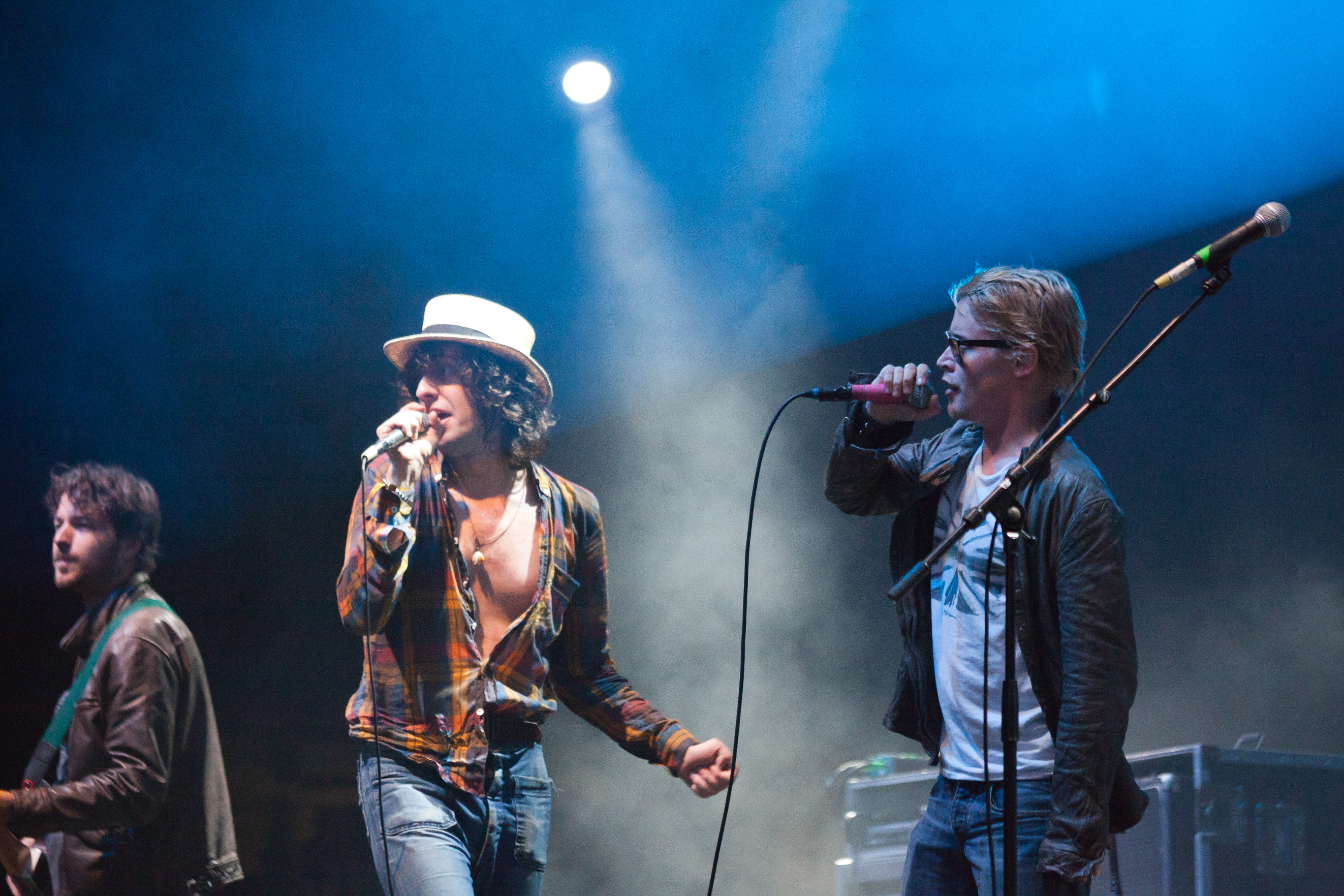 Adam Green duetting "Wind Of Change" with Macaulay Culkin. Berlin Festival 2010, Tempelhof Airport.